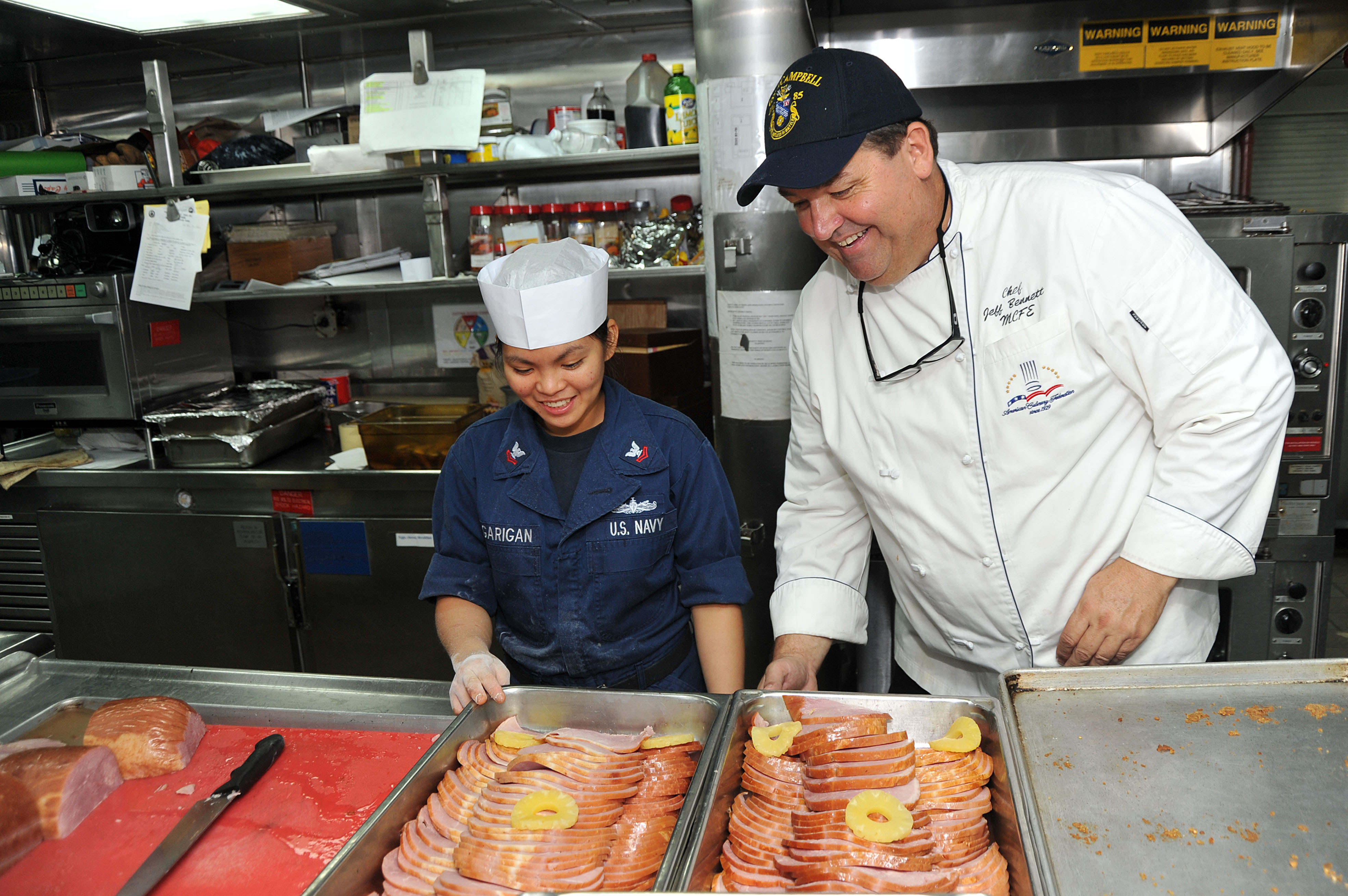 121023-N-TG831-196 SOUTH CHINA SEA (Oct. 23, 2012) Executive Chef Jeff Bennett assists Culinary Specialist 2nd Class Ferose Pagarigan prepare a meal aboard the Arleigh Burke-class guided-missile destroyer USS McCampbell (DDG 85). Bennett is visiting the ship as part of the Navy's "Adopt-a-Ship" program, which allows professional chefs the ability to visit naval vessels and provide culinary training and mentorship. McCampbell is part of the George Washington Carrier Strike Group based out of Yokosuka, Japan, and is conducting a patrol of the western Pacific in support of regional security and stability of the vital Asia-Pacific region. The U.S. Navy is reliable, flexible, and ready to respond worldwide on, above, and below the sea. Join the conversation on social media using #warfighting. (U.S. Navy photo by Mass Communication Specialist Seaman Declan Barnes/Released)